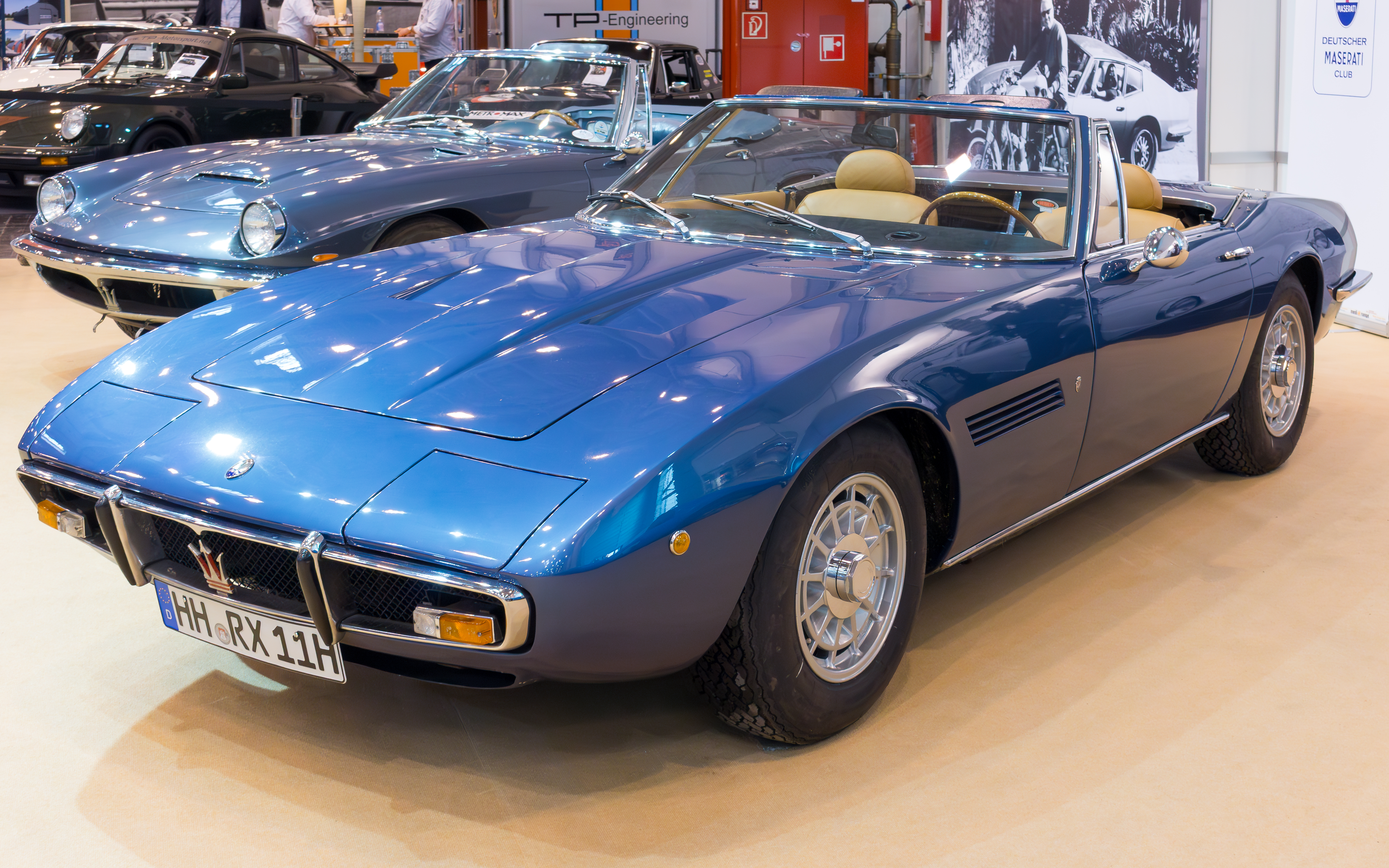 Techno Classica 2018, Essen